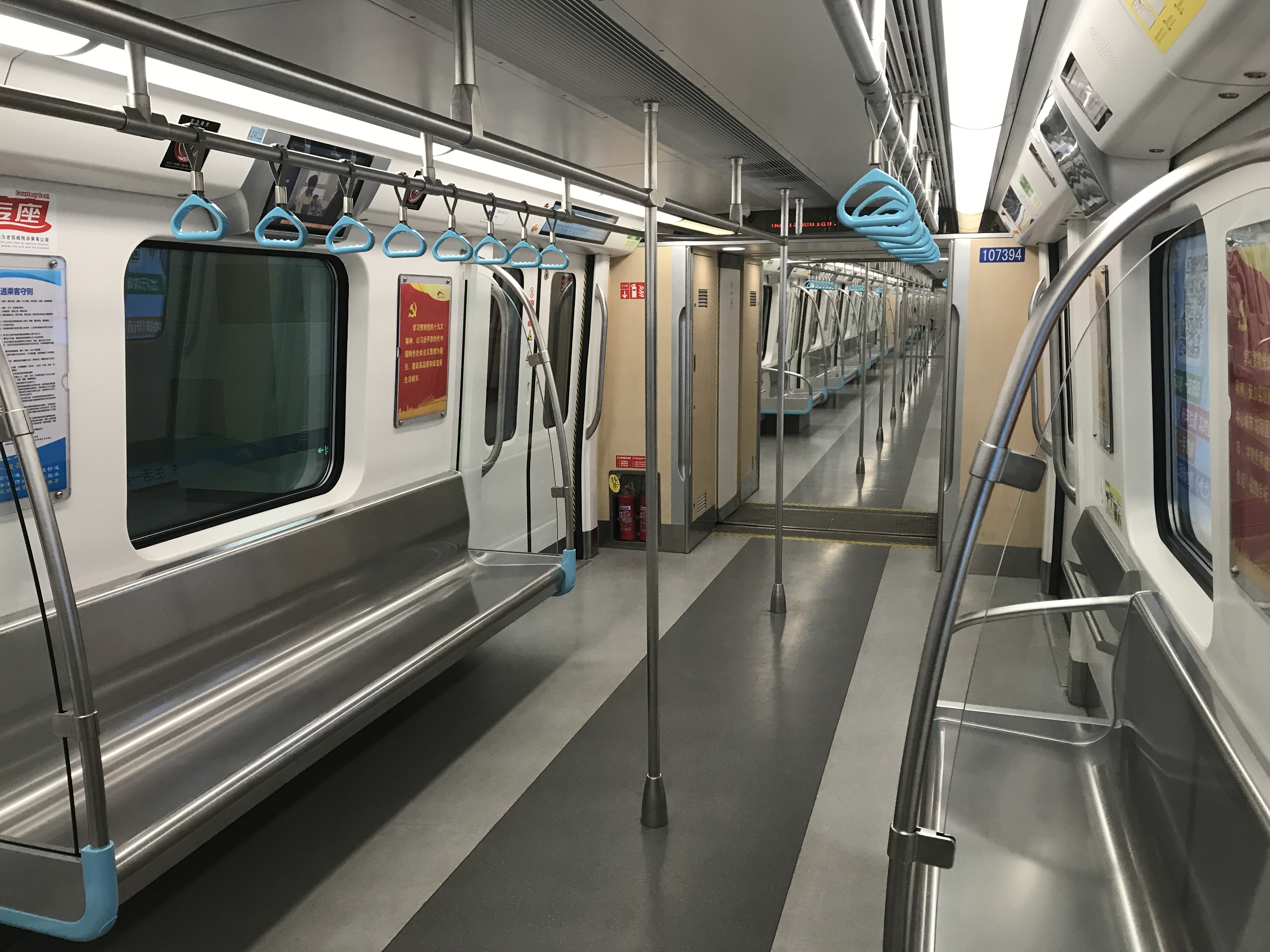 Inside of line 7 train, Chengdu Metro